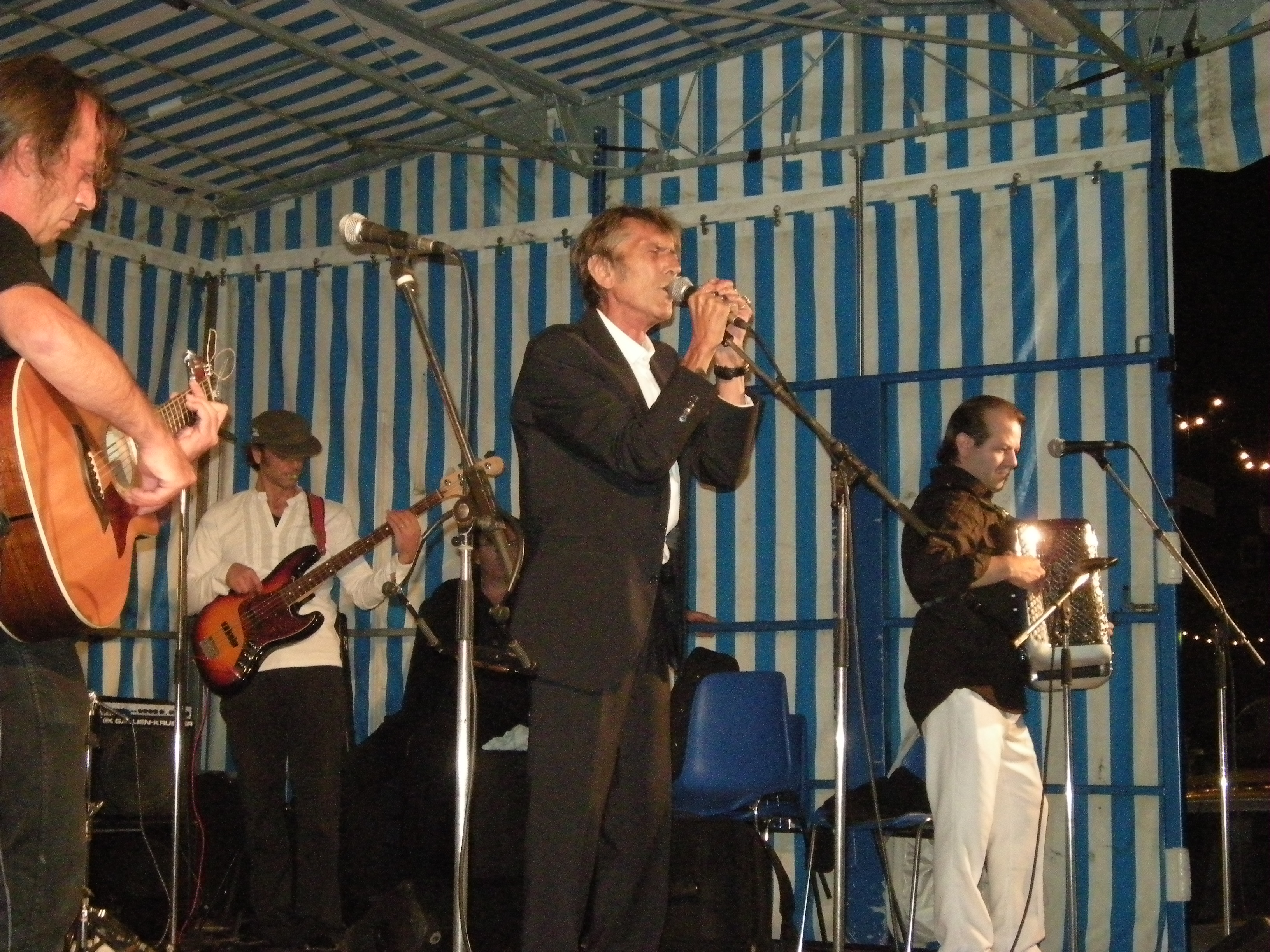 Michel Tonnerre, French shantyman, during les Mardis du port of Paimpol, 2010-08-17